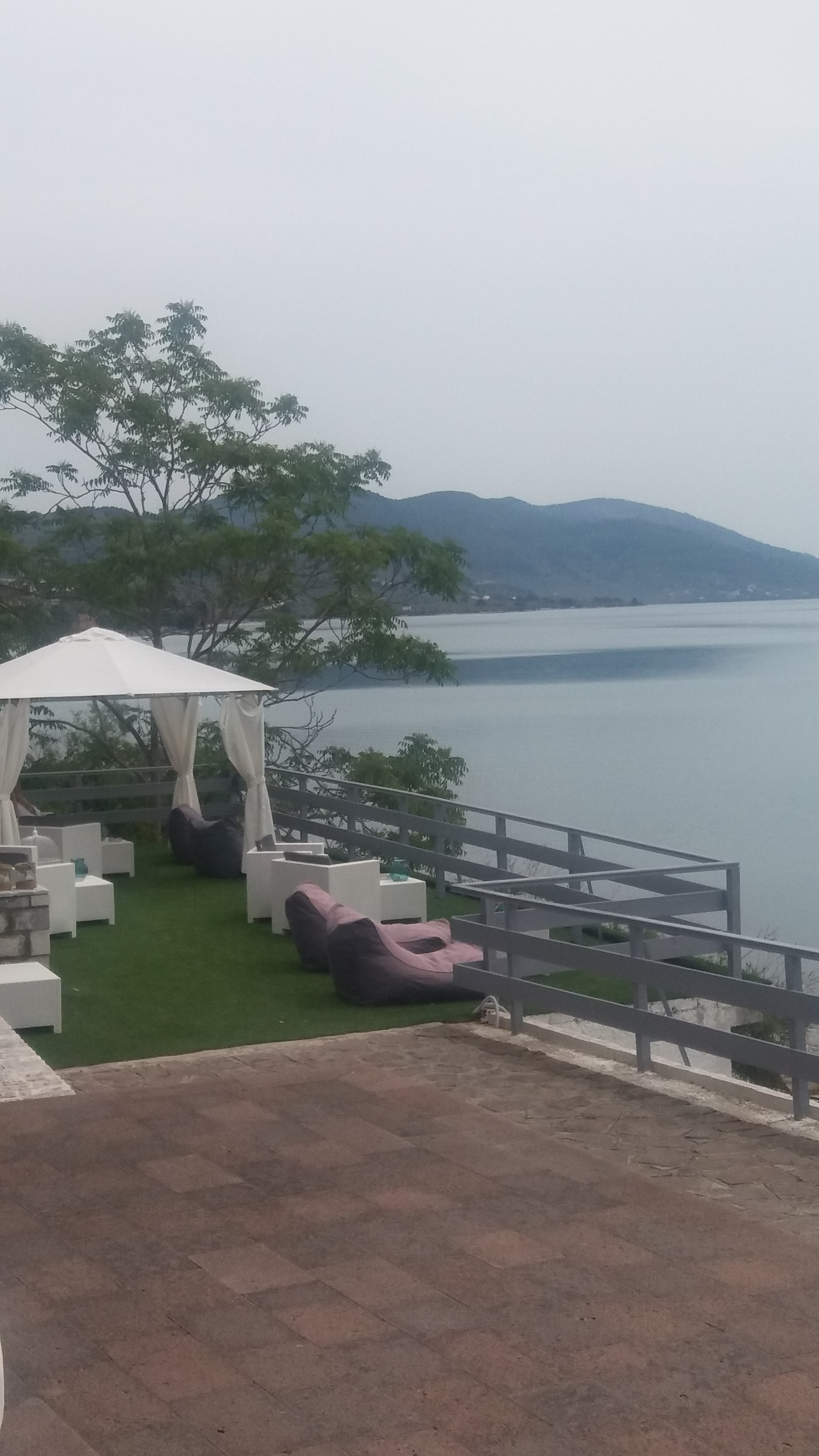 Thermal baths on Gera Gulf, Lesvos